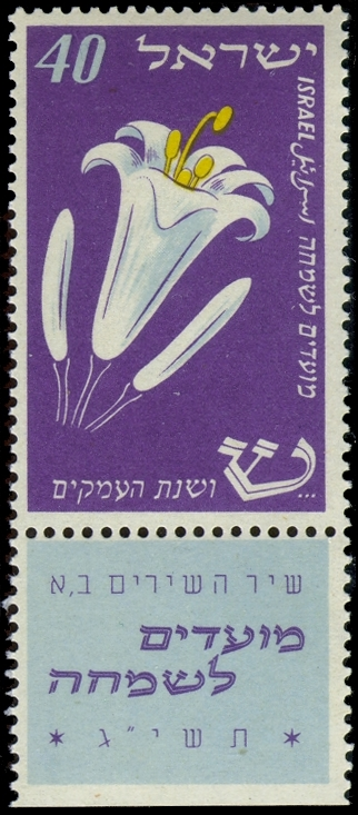 Joyous Festivals 5713 stamp - 40 mil. Inscription: "The lilyof the valleys". Inscription on tab: "Song of Solomon II, 1", "Joyous Festivals 5713".